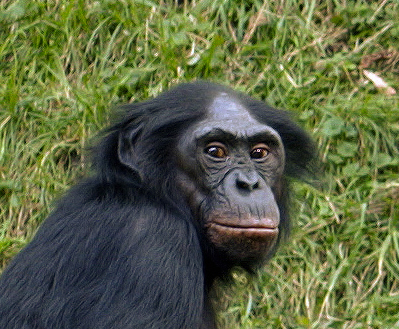 Head of a Bonobo (Pan paniscus)